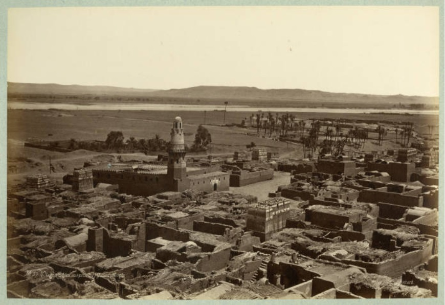 Photograph of the village of Edfu from the pylon of the Temple of Horus